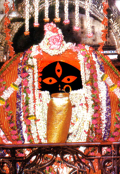 Photograph by self of the Deity at Kalighat Kali temple.